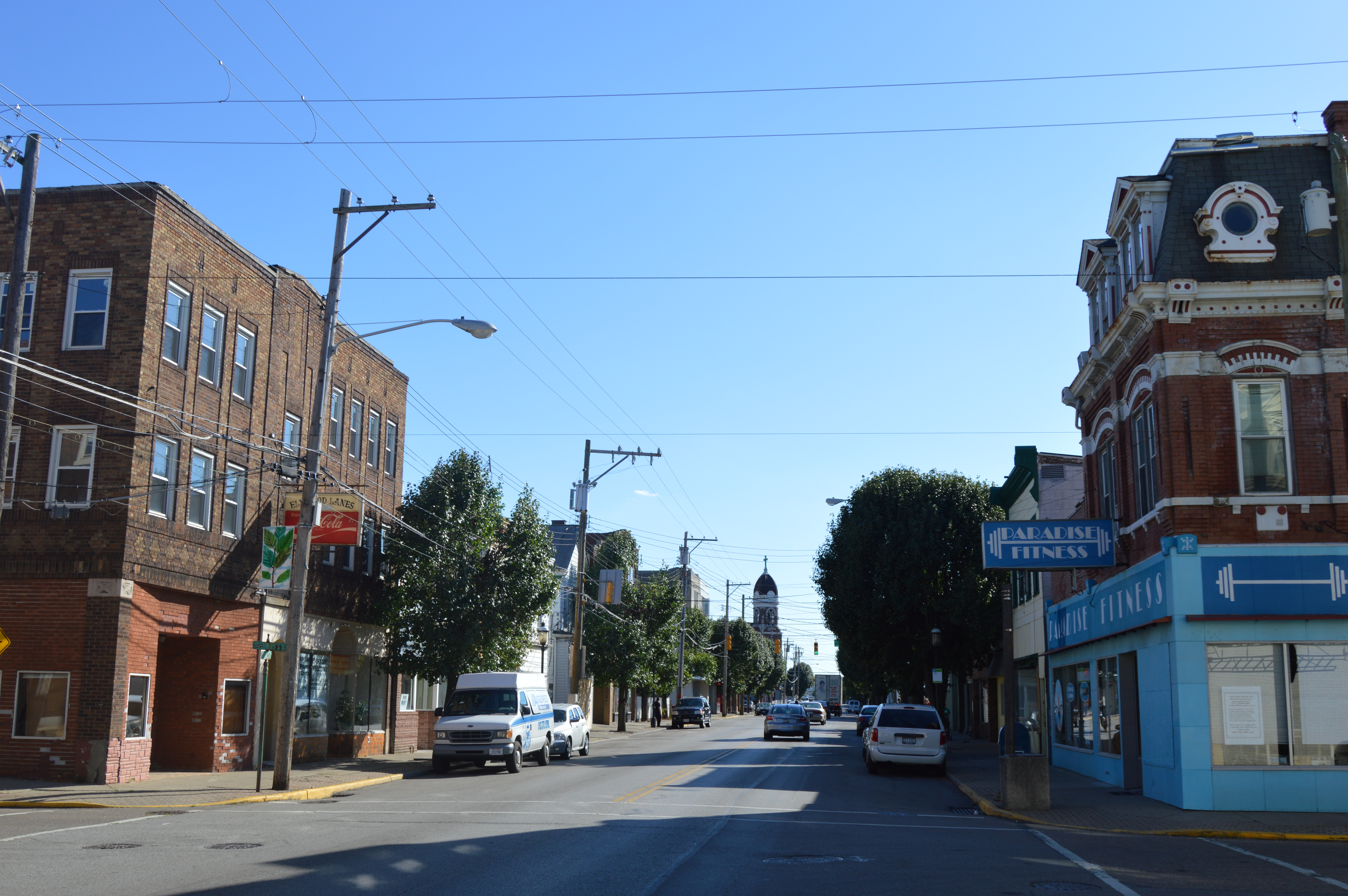 Looking southwest from the Walnut Street intersection on Vine Street in central Elmwood Place, Ohio, United States.